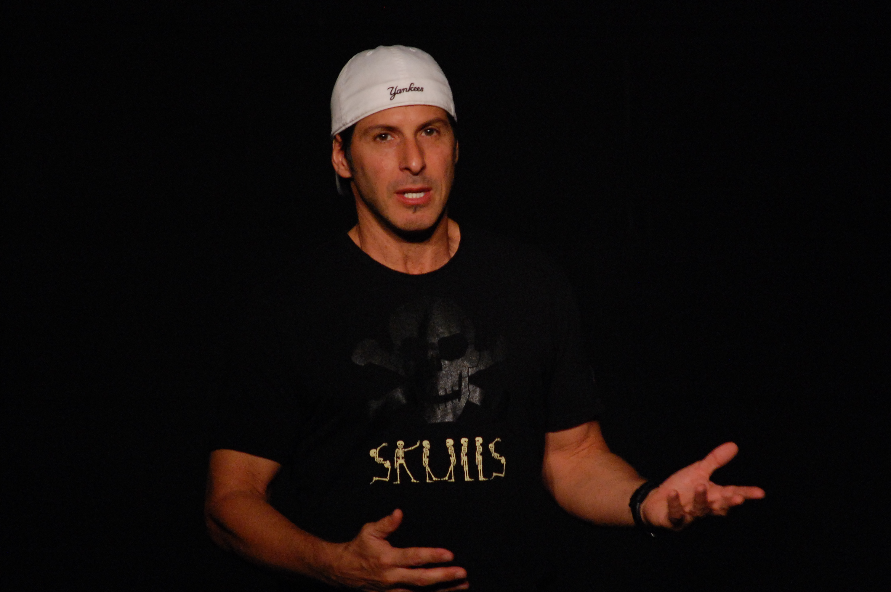 American television personality Joey Greco at the Dallas Comedy House.